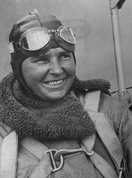 Pilot Polina Denisovna Osipenko